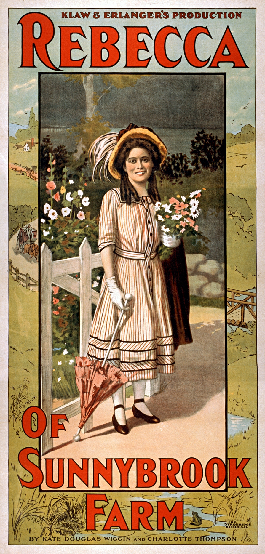 Poster for Klaw & Erlanger's production of "Rebecca of Sunnybrook Farm" by Kate Douglas Wiggin (1856-1923) and Charlotte Thompson.